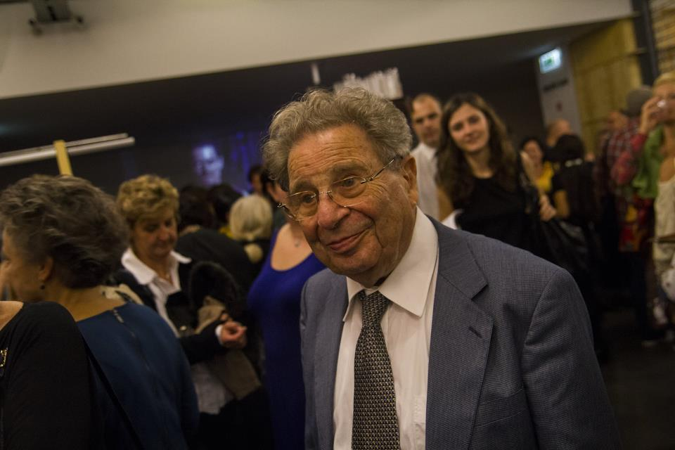 Tibor Vámos electerical engineer, member of the Hungarian Academy of Science.